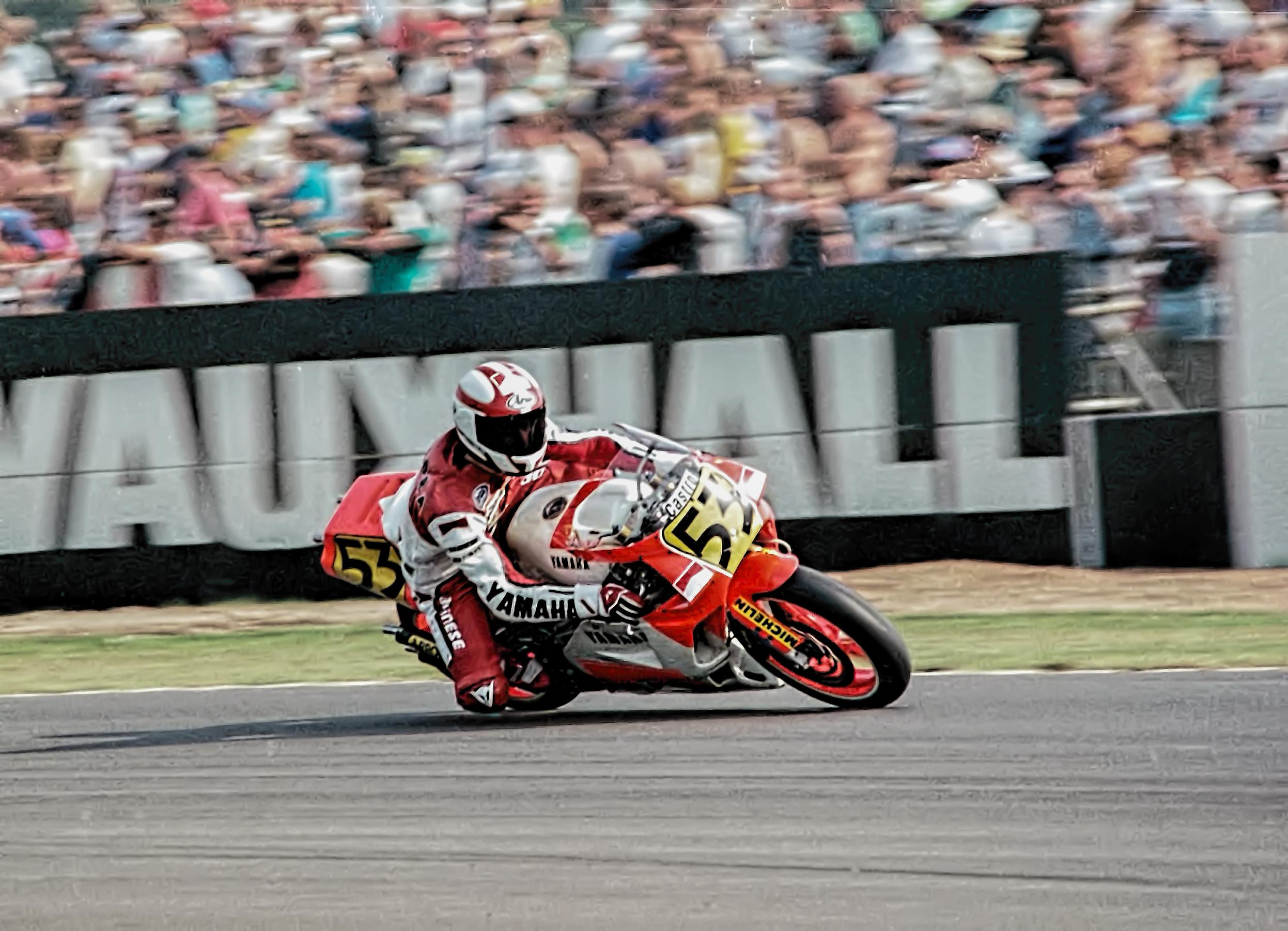 Luca Cadalora, riding his Team Agostini Marlboro Yamaha at the 1989 British Grand Prix.